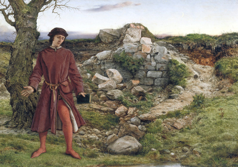 King Henry VI of England at Towton